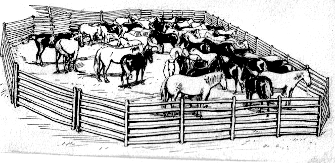 b/w line drawing of a corral